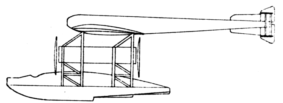 Zeppelin-Lindau Rs.III profile drawing from L'Aerophile August,1921